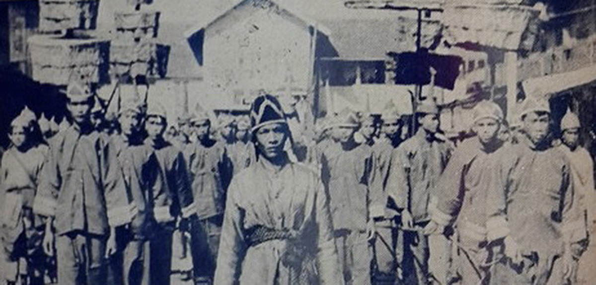 Phraya Phichai Dap Hak Monument in 1970 on Uttaradit Town Hall